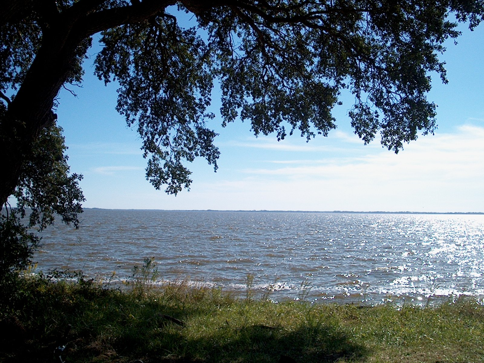 Currituck Sound of Virginia and North Carolina. As seen from Knotts Island, North Carolina. With Eastern Live Oak (Quercus virginiana) tree. Credits © 2005 Wyatt Greene